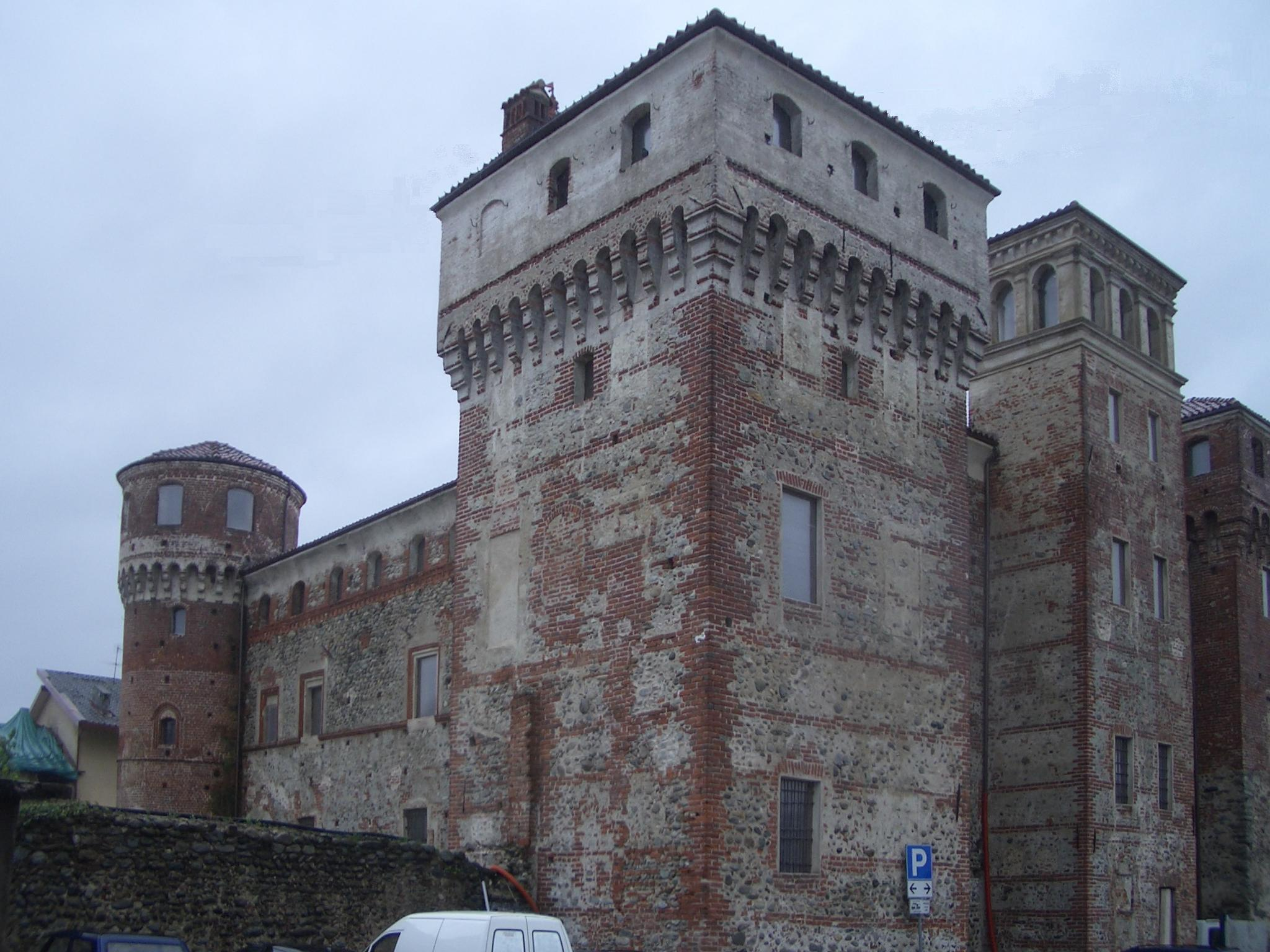 Ozegna, the castle